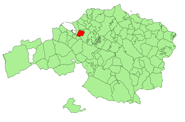 Leioa municipality in the province of Biscay